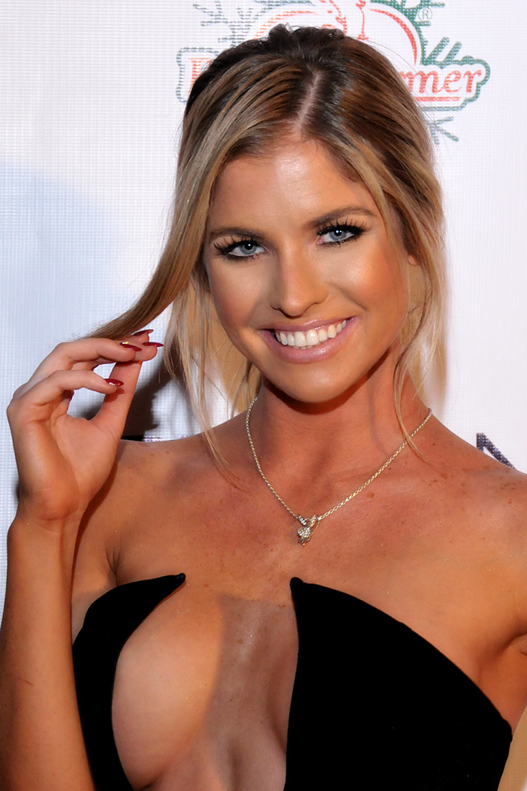 Carly Lauren, Hollywood California on December 11, 2014 - photo by Glenn Francis of